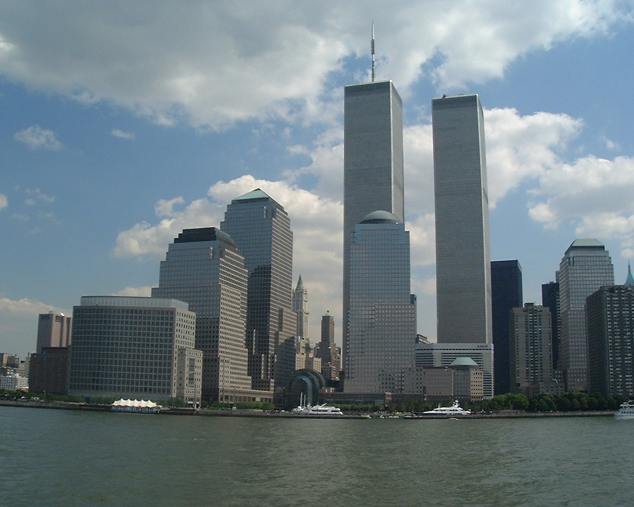 Shown: World Trade Center Battery Park City Hudson River